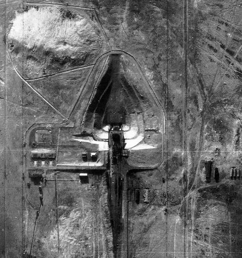 Cosmodrom Baikonur from U-2.